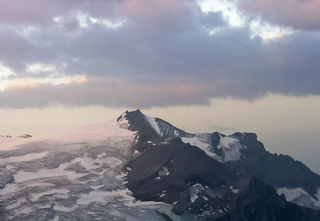 Alpine Hut "Heinrich-Schwaiger Haus", Austria. In the background Johannisberg (left), the glacier Karlingerkees, Hohe Riffl (right)